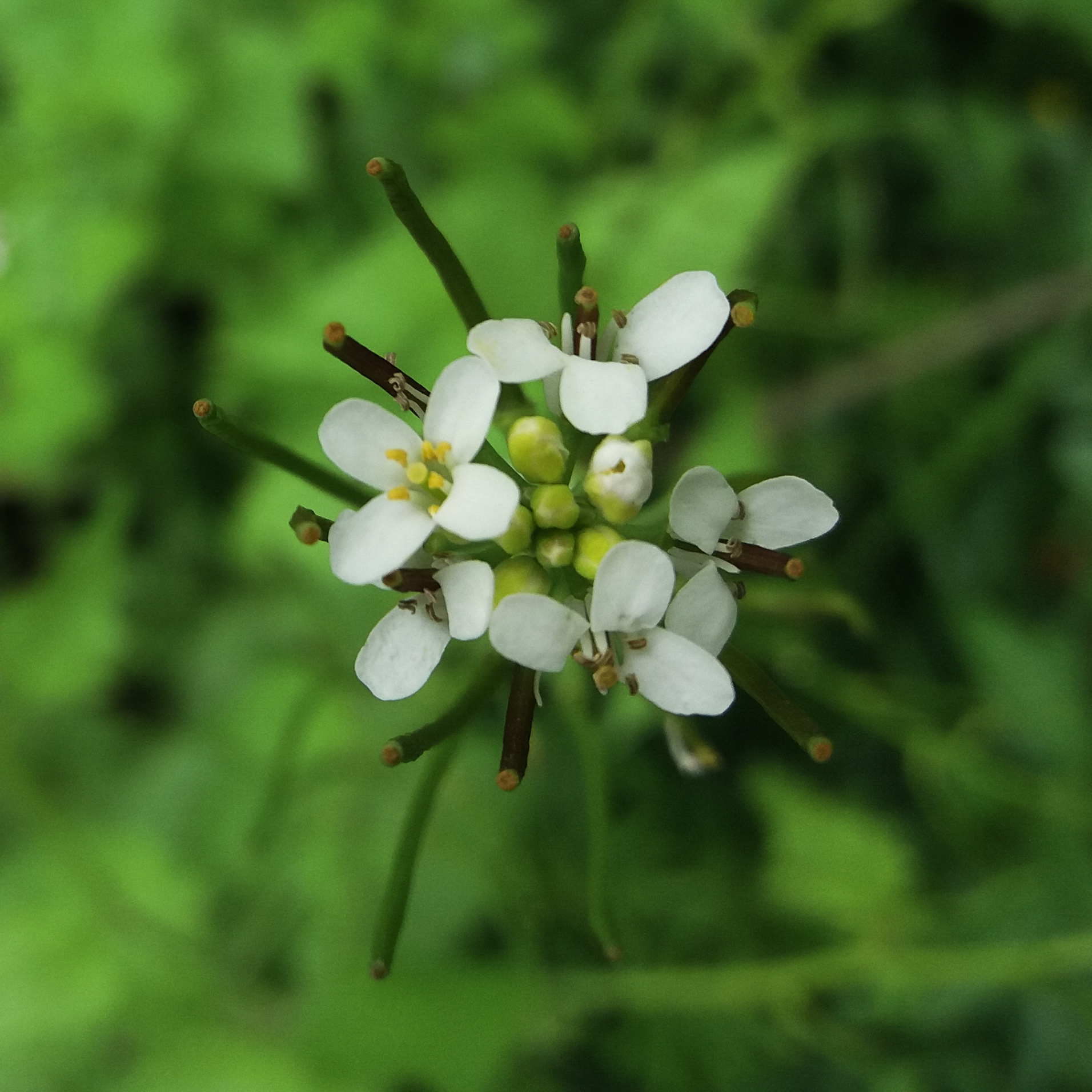 Alliaria petiolata or garlic mustard